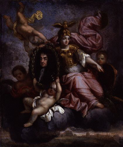 King Charles II of England in an allegory